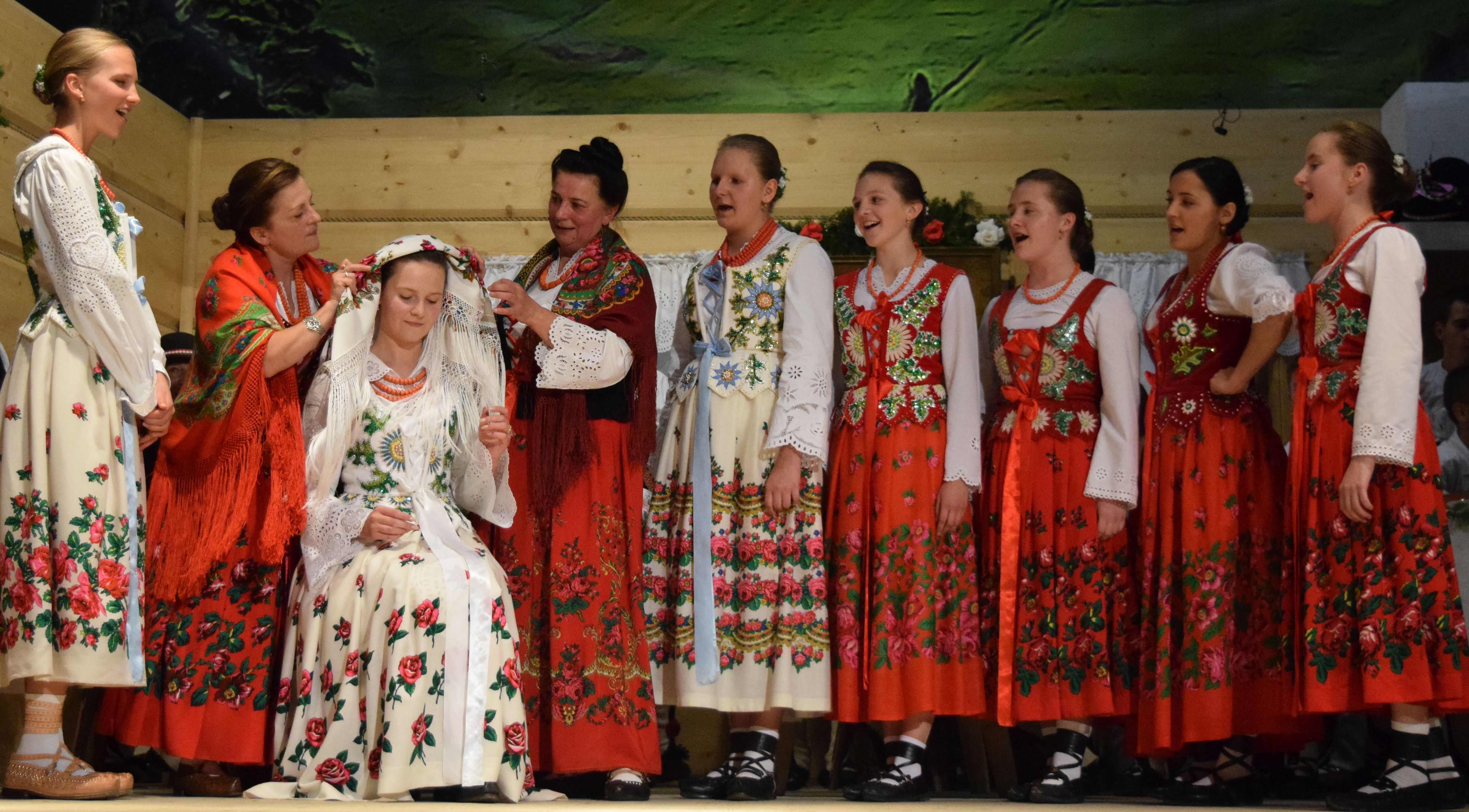 "Highlanders' Wedding", Dom Ludowy Theatre in Bukowina Tatrzańska